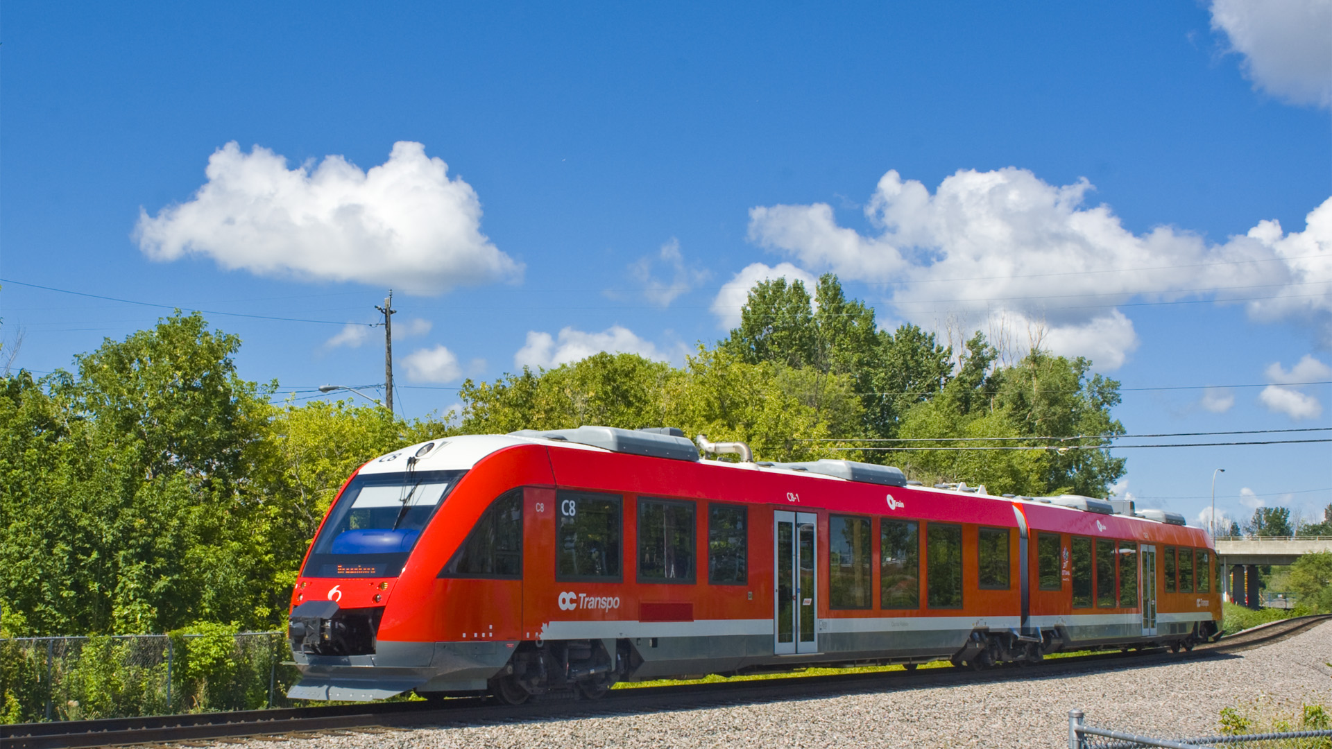 Coradia LINT 41 of Capiral Railway (Ottawa) leaving Bayview station on the “Trillium” line.